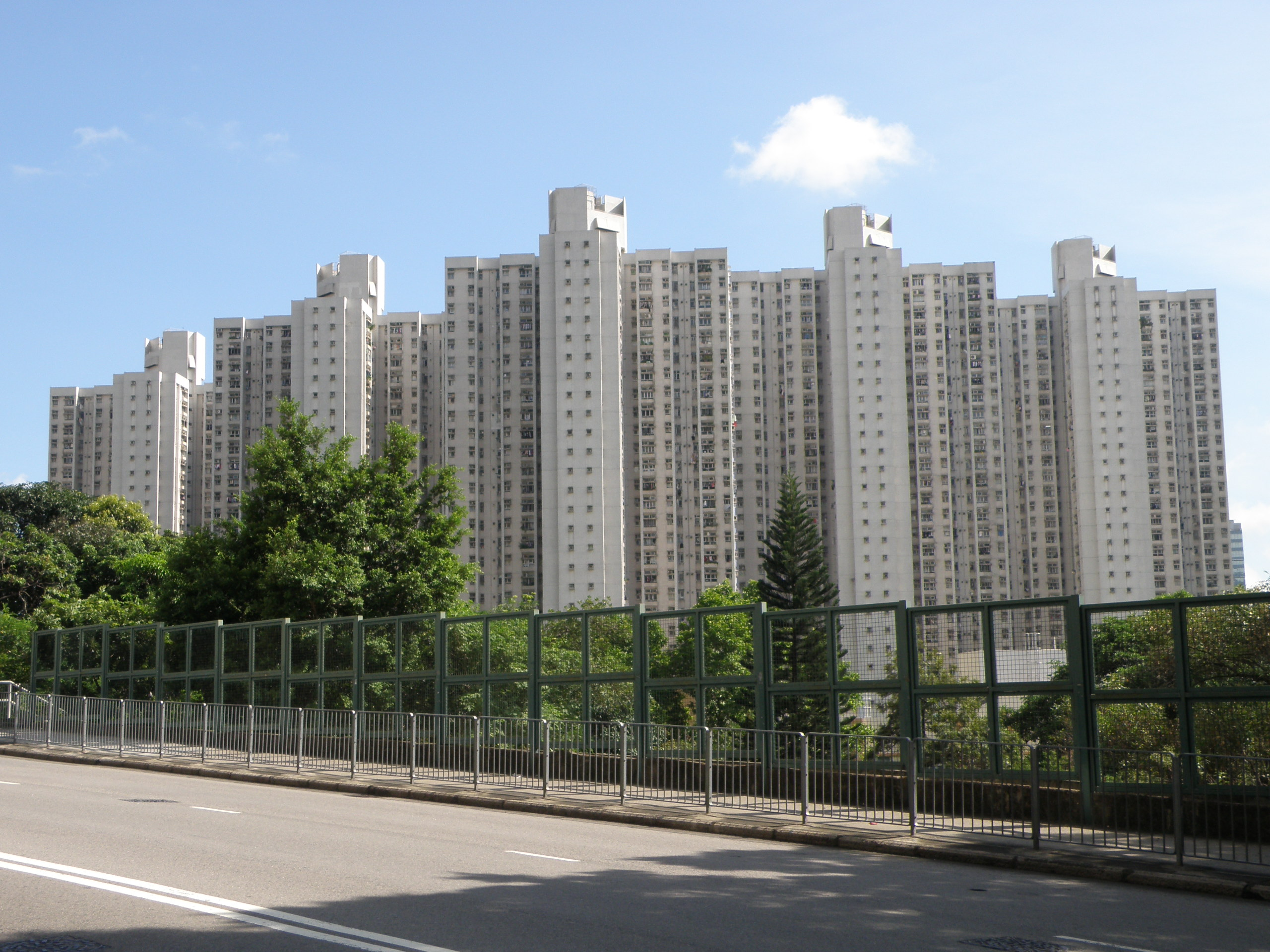 Po Pui Court in Kwun Tong, Hong Kong.